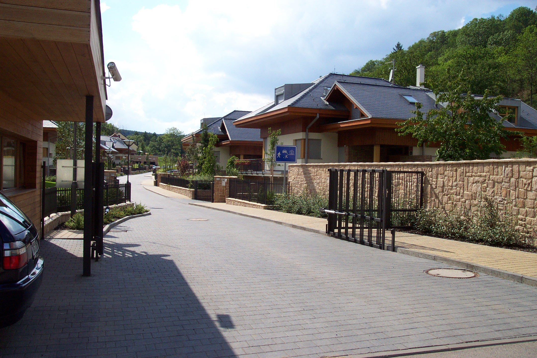 Prague Dejvice, Ke Kulišce, buildings in Šárecké údolí valley